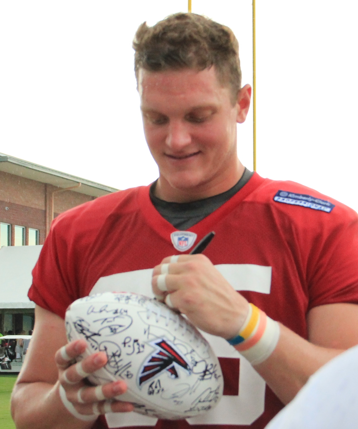 Andrew Szczerba at Falcons training camp, 2013